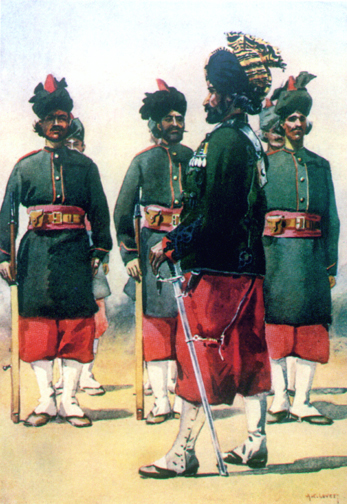 127th Queen Mary's Own Baluch Light Infantry. Watercolour by Major Alfred Crowdy Lovett, 1910. Published in MacMunn & Lovett, Armies of India, 1911.